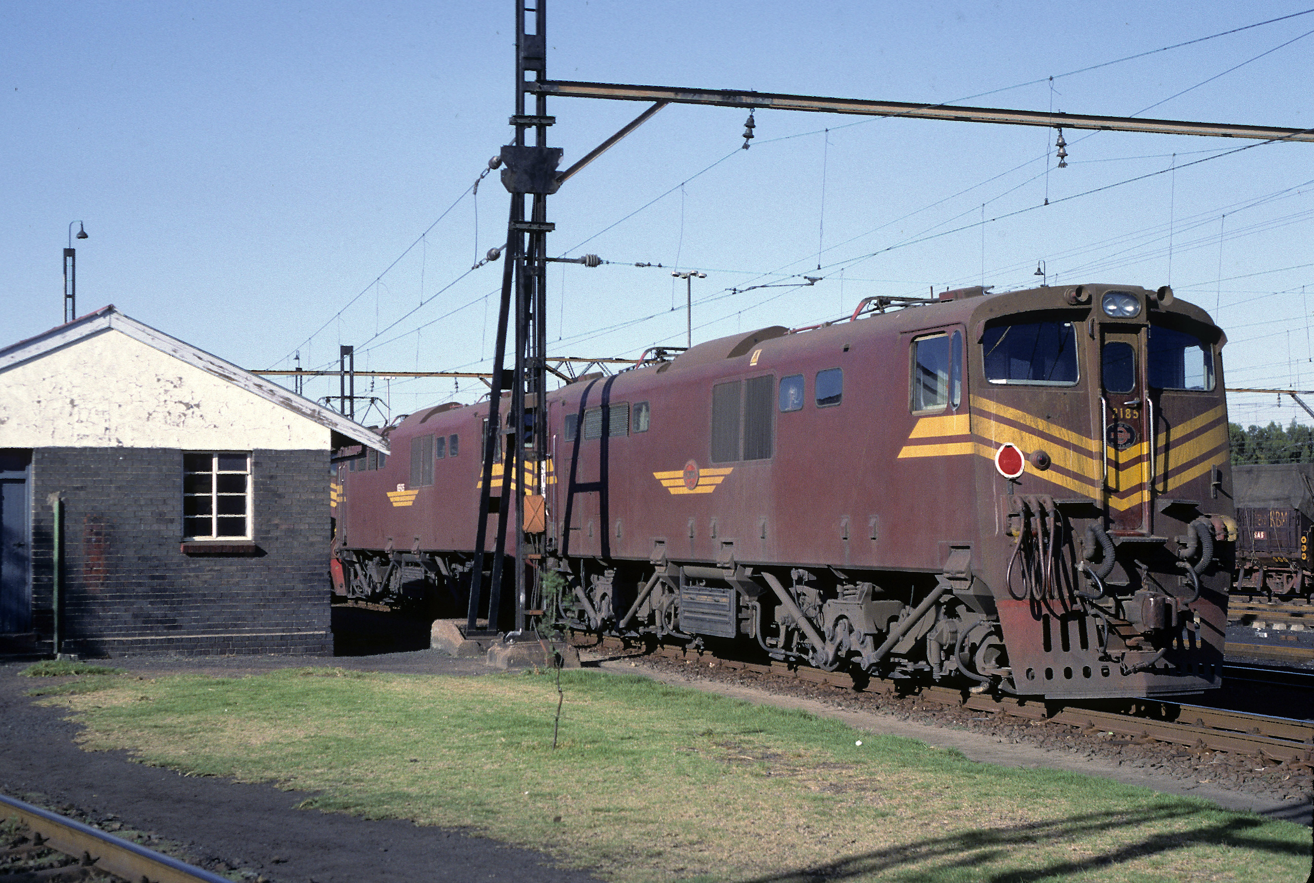 SAR Class 6E1 Series 11 E2185, the last Class 6E1 built Location: Witbank, Transvaal Rebuilding: In 2004 E2185 was withdrawn from service and rebuilt to Class 18E 18-146